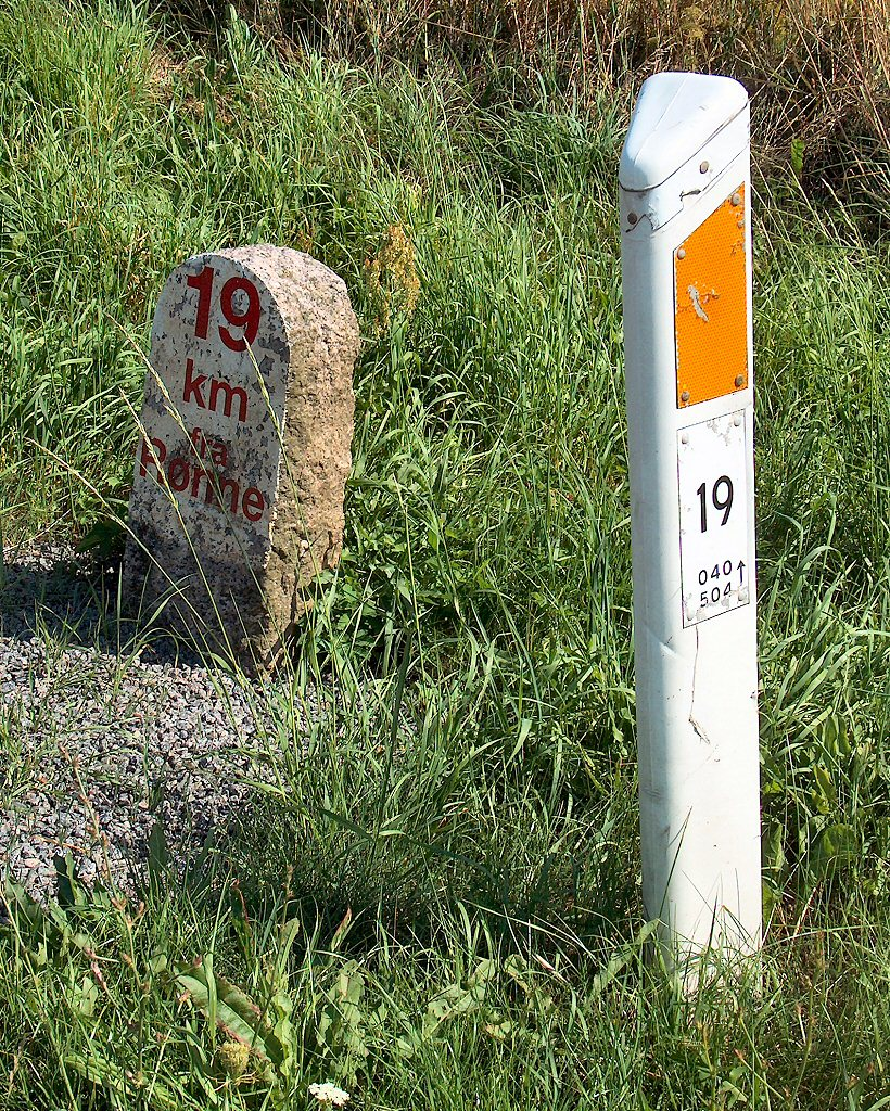 19 km milestone of rock and plastic on Bornholm, Denmark